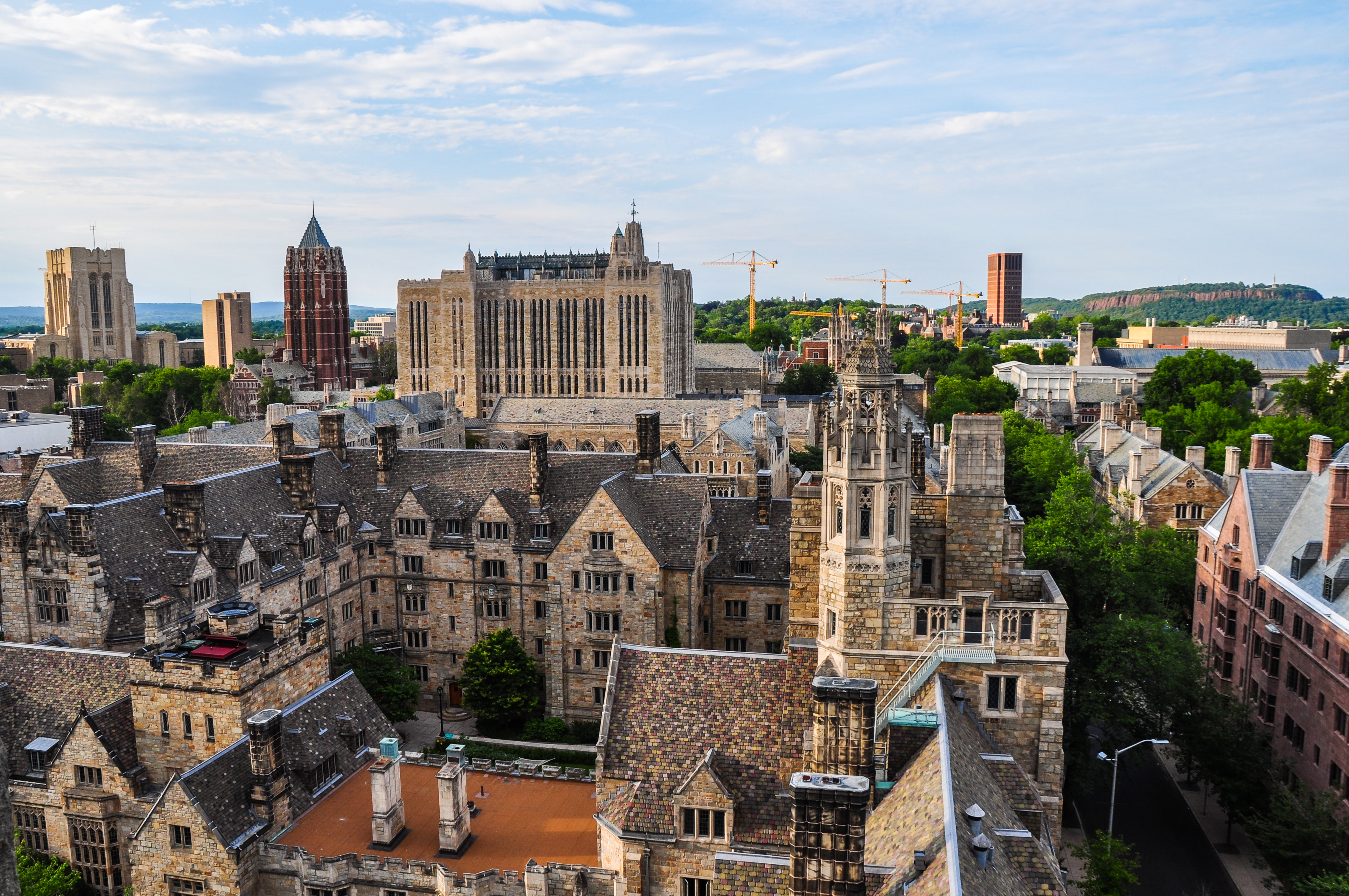 Yale University from Harkness Tower (facing north).